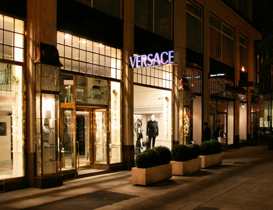 Versace store in Vienna, Austria.